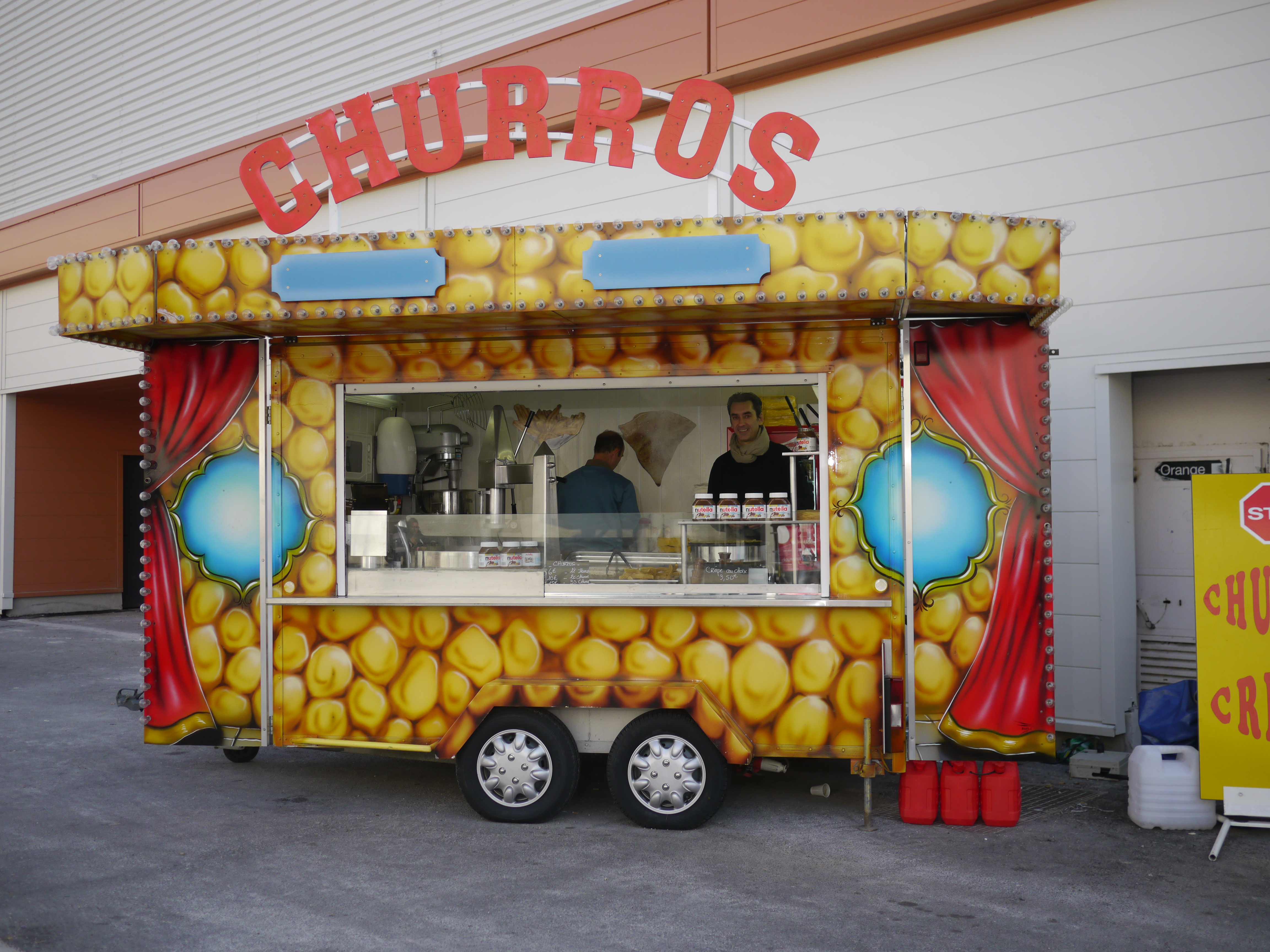 Japan Expo Festival, 4th edition, 2012